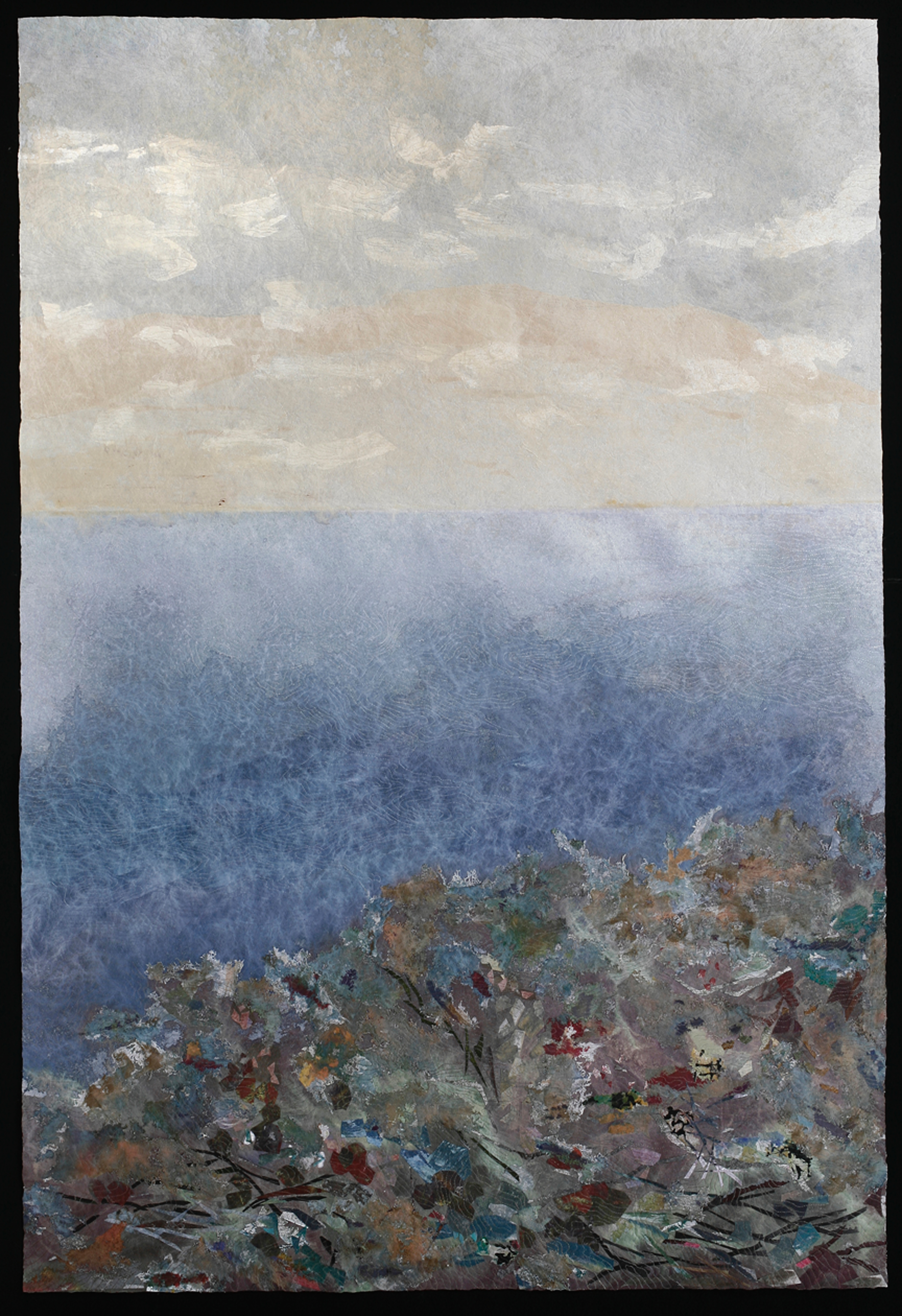 4 x 6' Photographer: Tom Holt